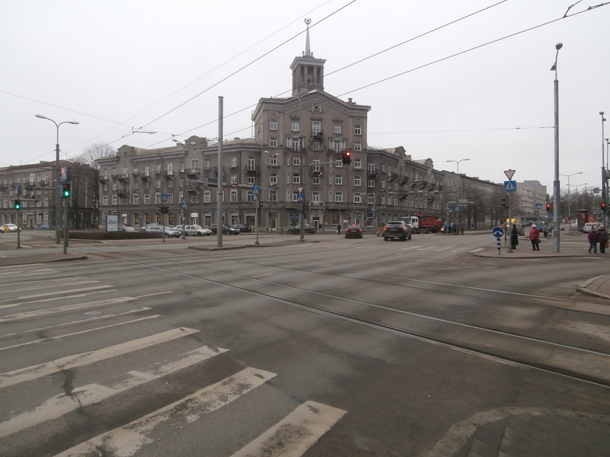 Liivalaia - Tartu mnt Junction in Tallinn 1 April 2016 (the new tram tracks on the route 2 and 4 in Tallinn)